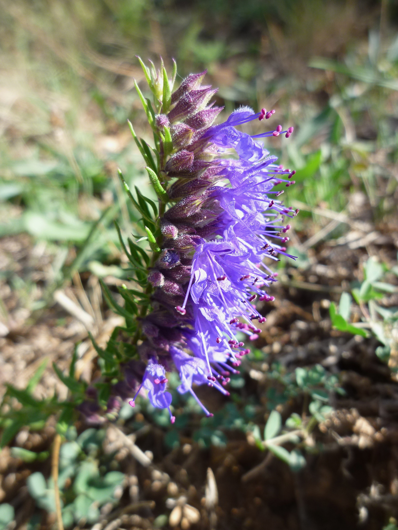 Hyssopus officinalis. In Guixers (Solsonès-Catalunya). To 1205 m. altitude